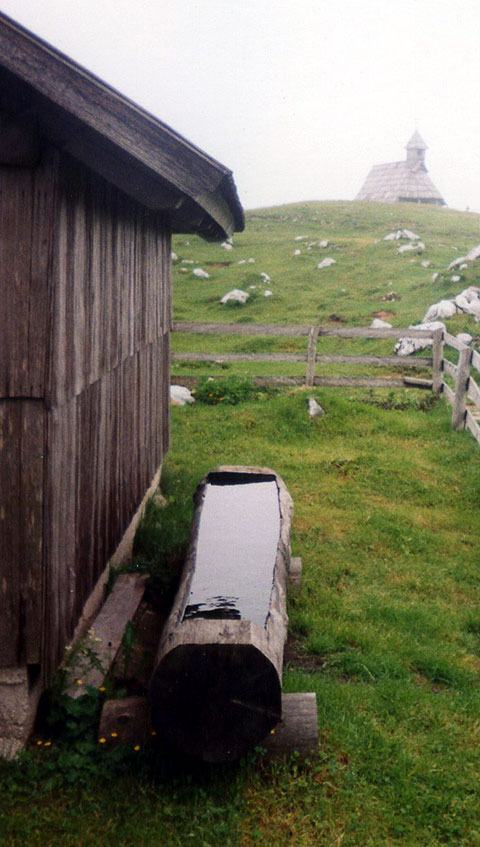 Shepherd's summer village: wooden church & wooden trough for rain water on Velika Planina in Slovenija